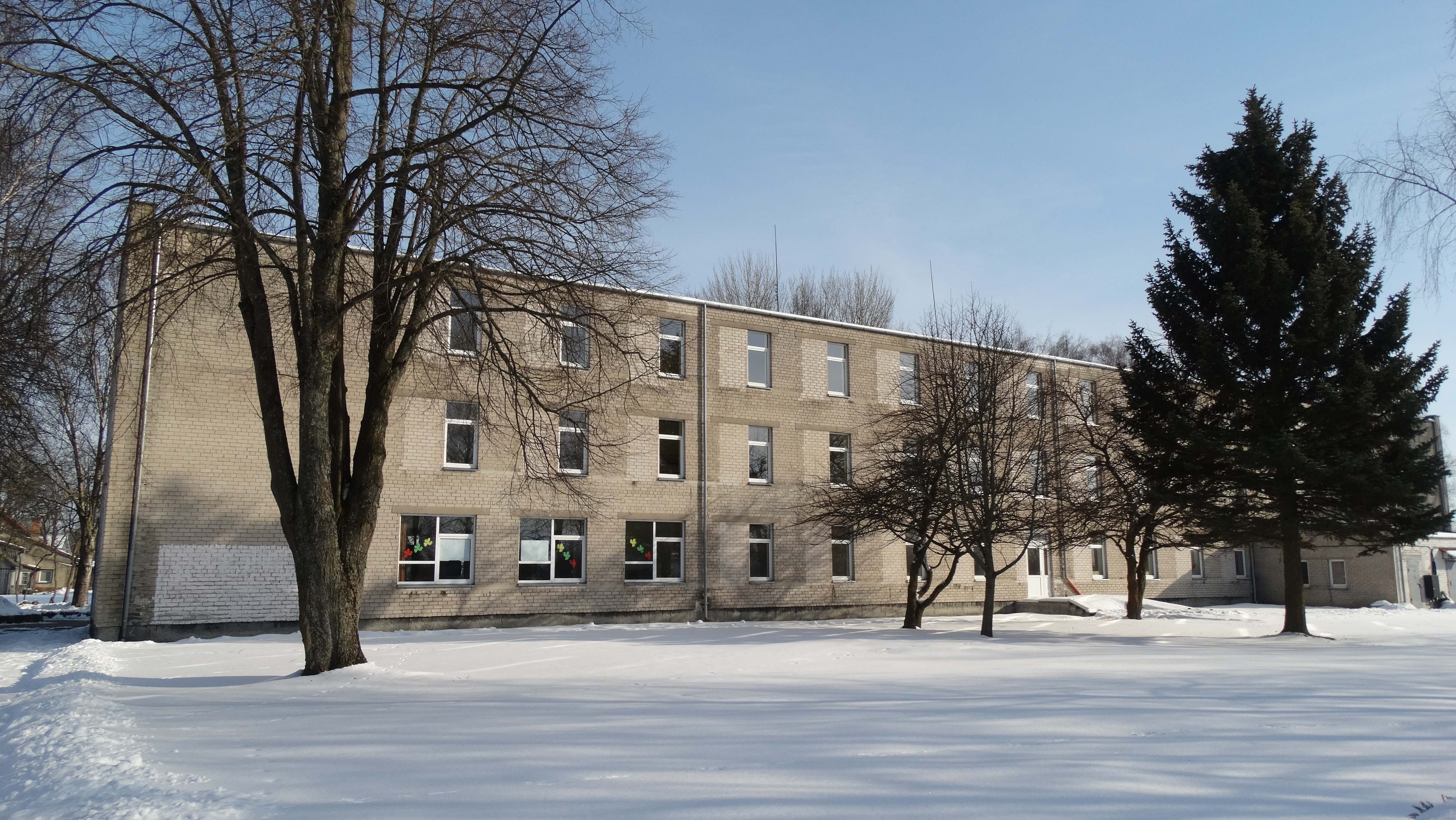 School, Rusnė, Šilutė district, Lithuania